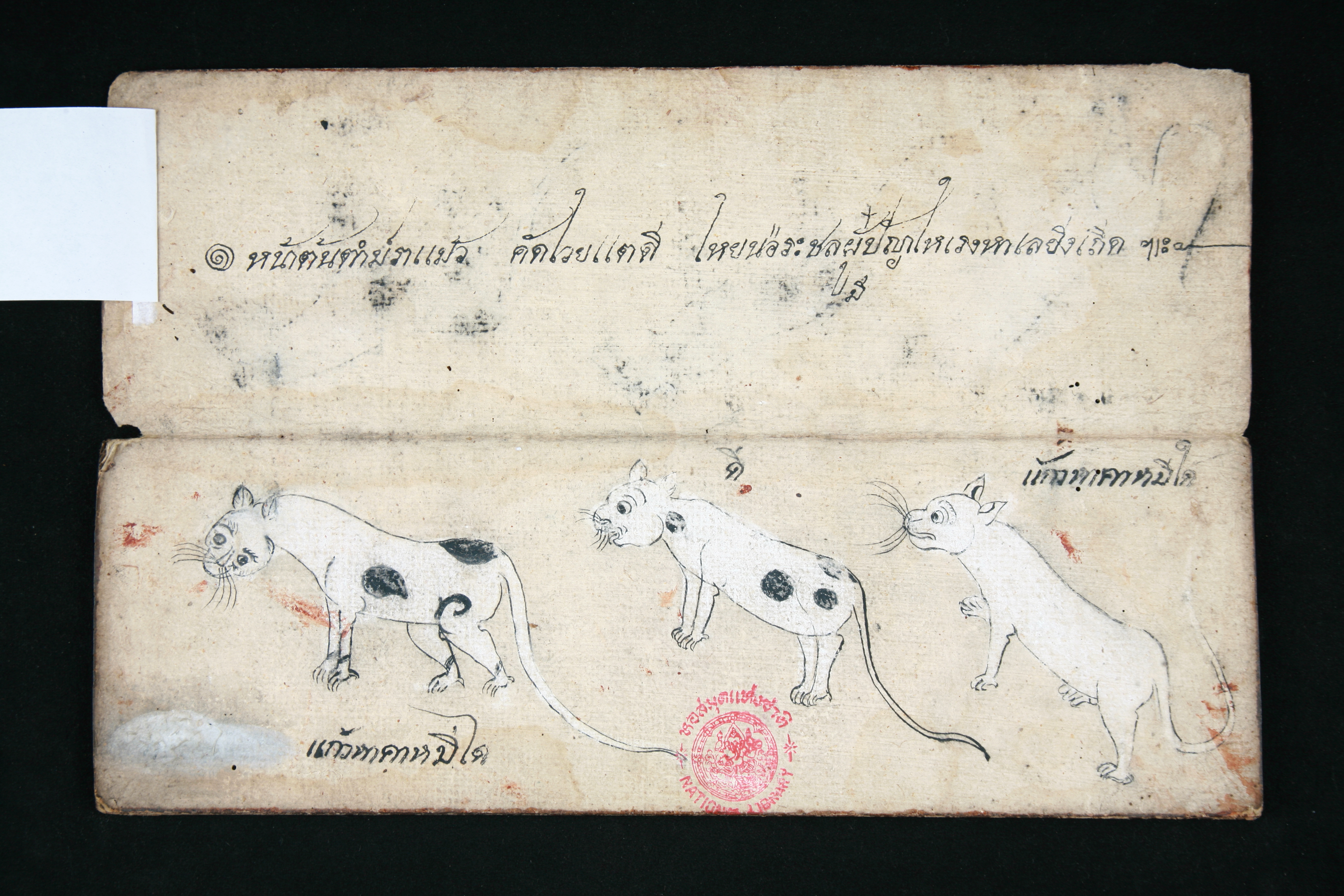 Khao Manee cat, cat origin in Thailand.